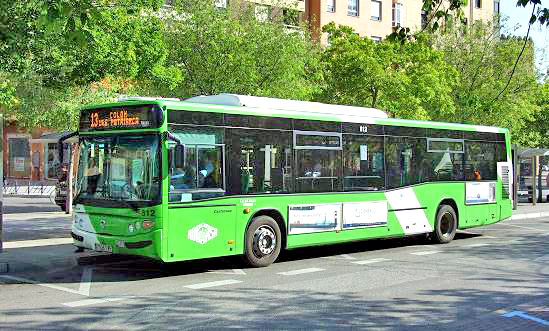 AUCORSA Bus in Córdoba (Spain).